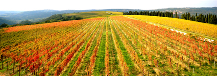 Brič vineyards